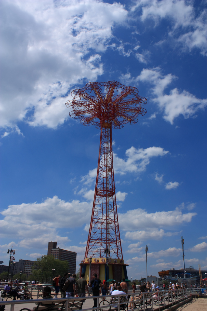 The Parachute Tower at Coney Island